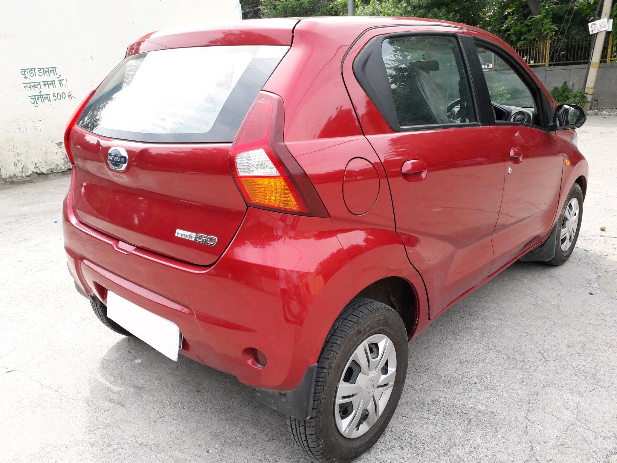 Datsun redi-Go in Delhi